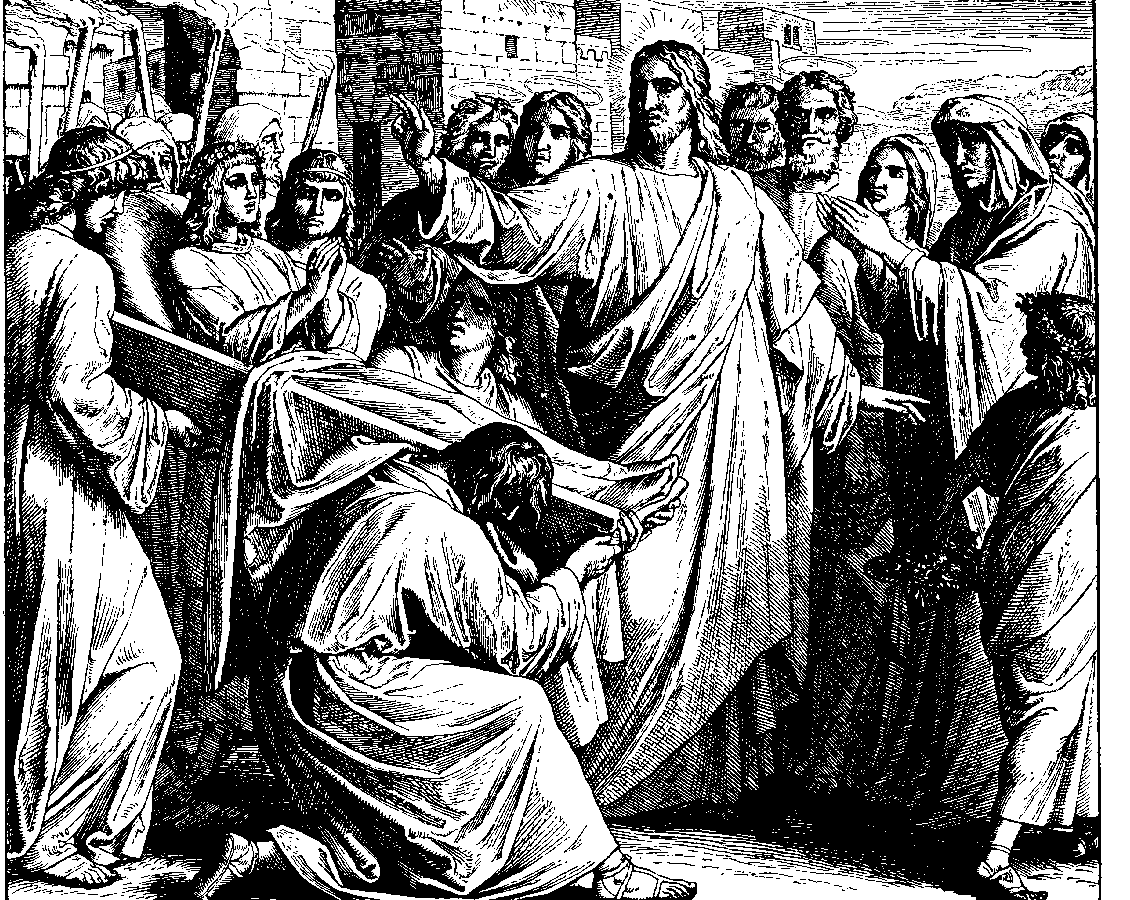 Woodcut for "Die Bibel in Bildern", 1860.